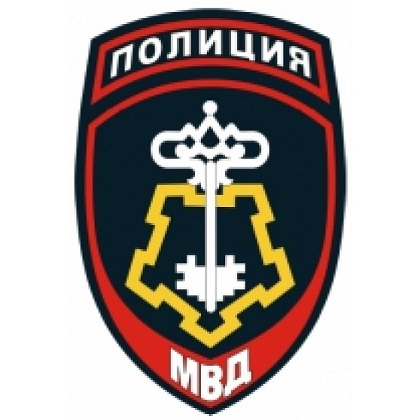 Chevron of the Management of non-departmental guard Ministry of Internal Affairs (Russia), from 2012 to the year 2018